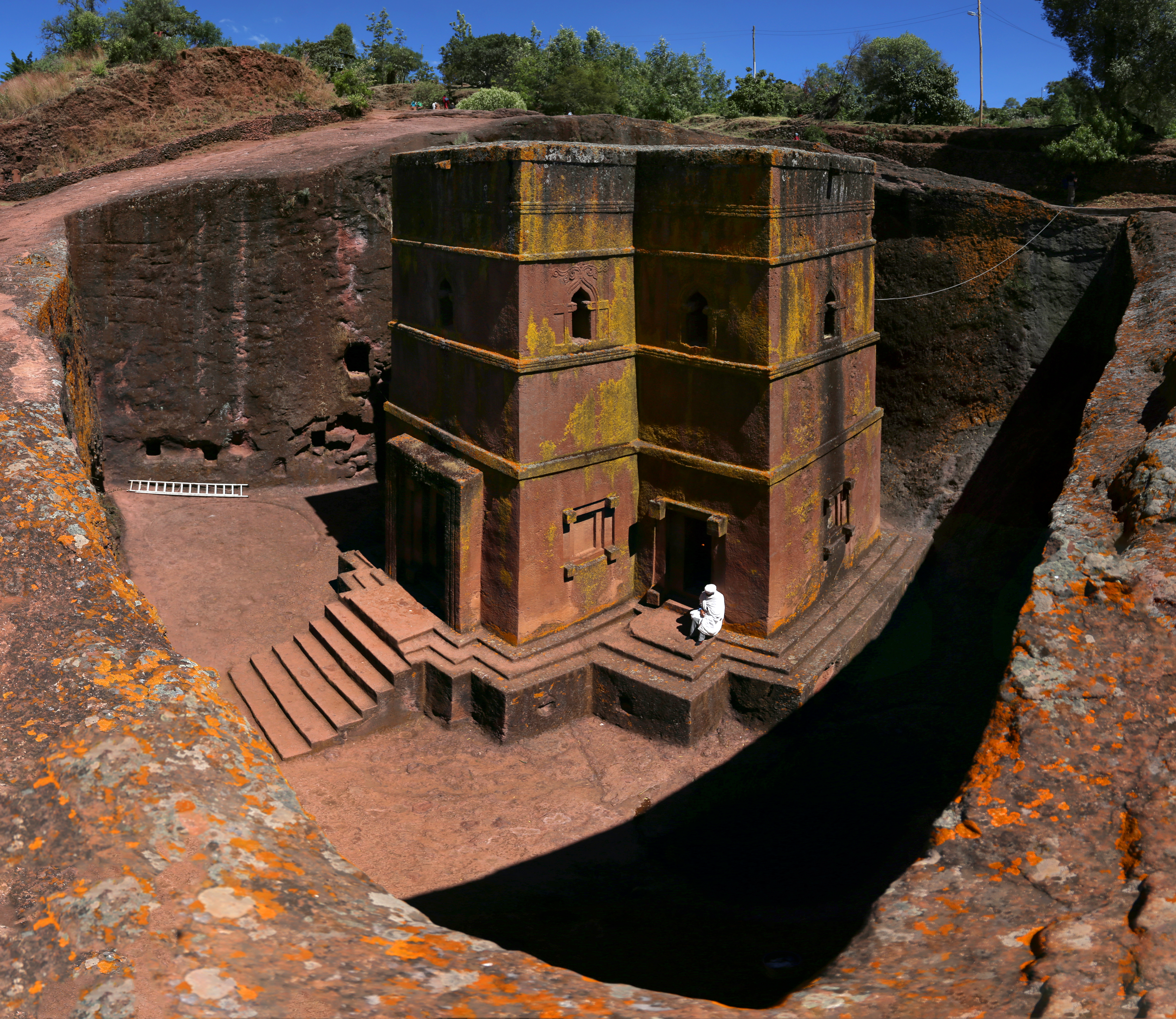 Biete Ghiorgis